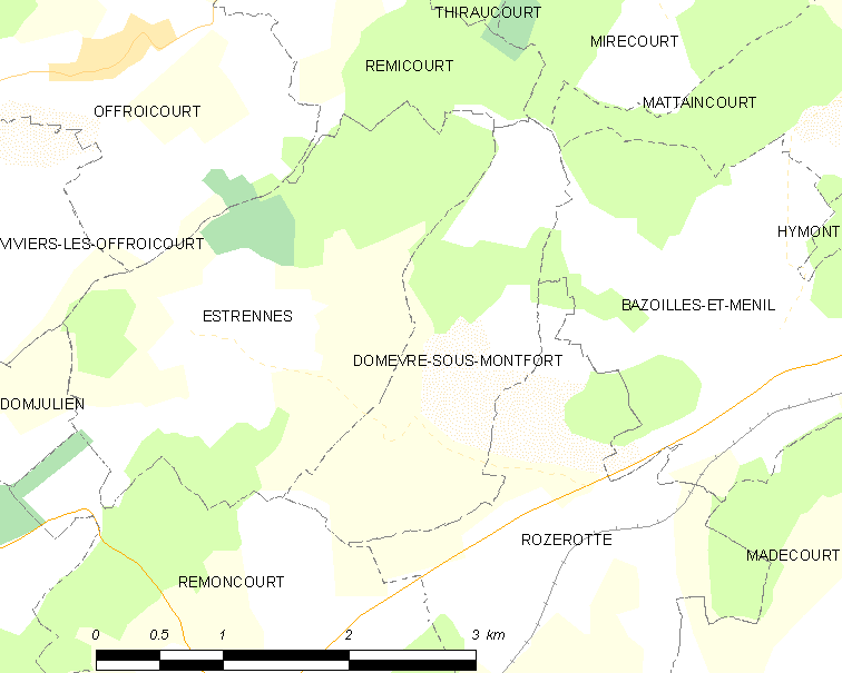 Map of French municipality Domèvre-sous-Montfort